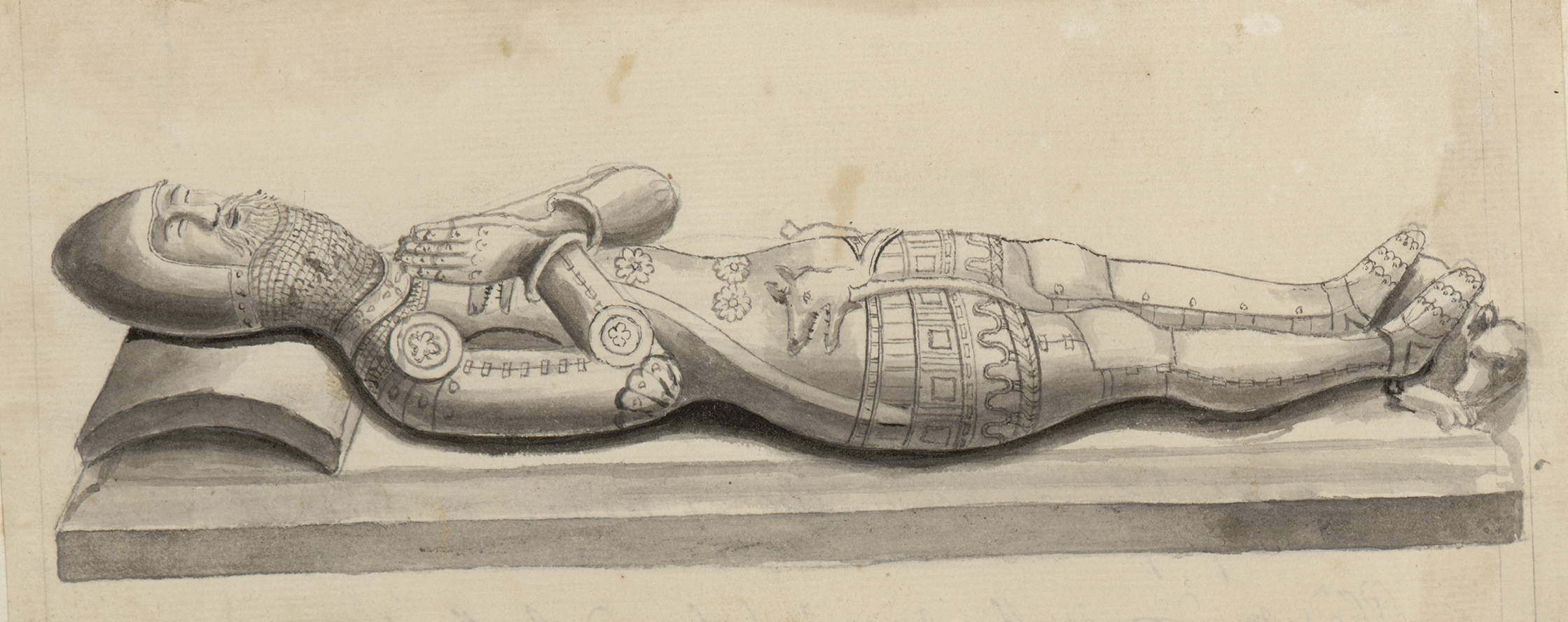 An image from a set of 8 extra-illustrated volumes of A tour in Wales by Thomas Pennant (1726-1798) that chronicle the three journeys he made through Wales between 1773 and 1776. These volumes are unique because they were compiled for Pennant's own library at Downing. This edition was produced in 1781. The volumes include a number of original drawings by Moses Griffiths, Ingleby and other well known artists of the period. Thomas Pennant (1726-1798)